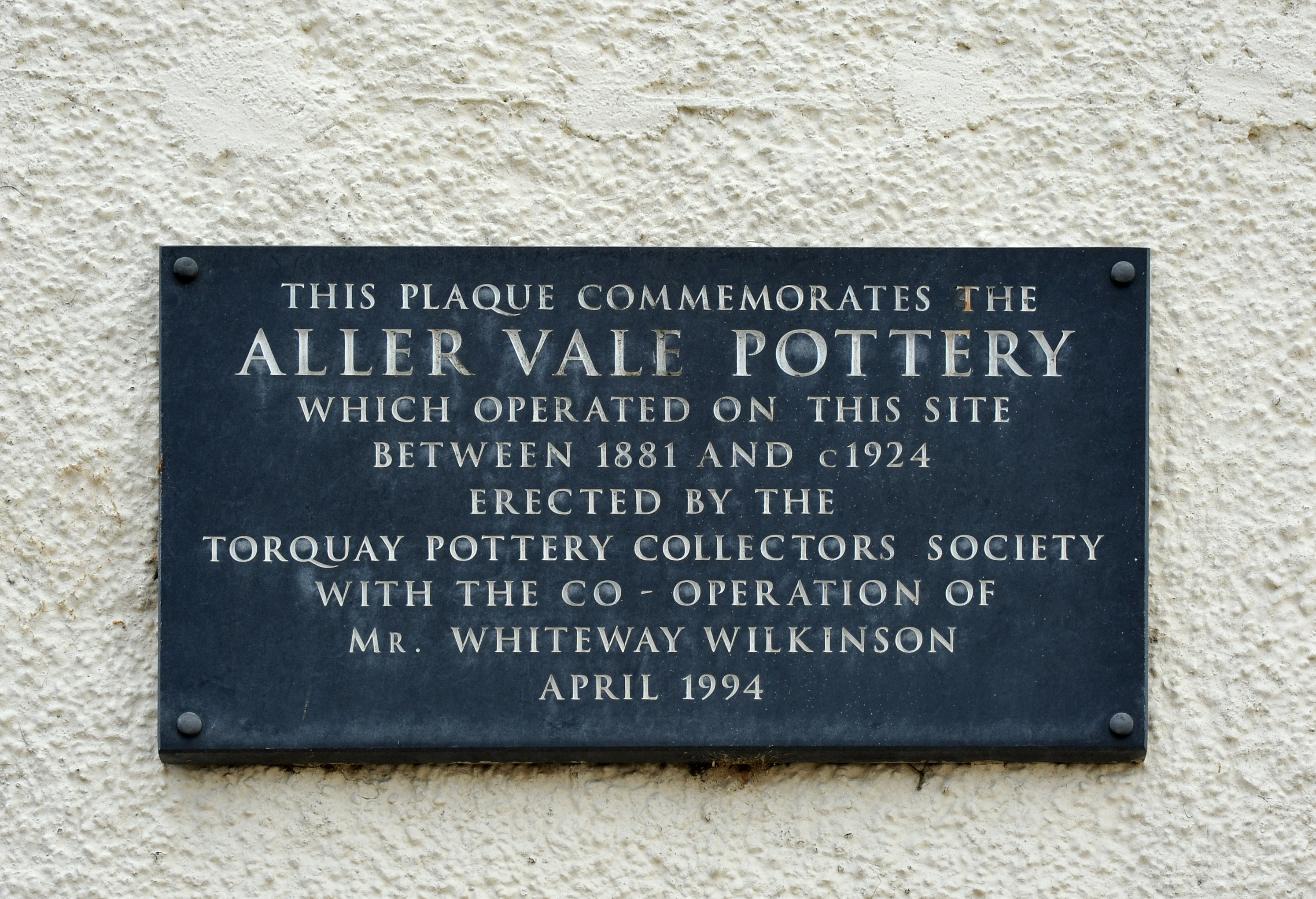 The plaque on the factory that is now located on the site of the Aller Vale Pottery, Kingskerswell, Devon, England. The pottery was in operation between 1865 and c. 1924.